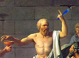 Pastiche of the painting The Death of Socrates by Jacques-Louis David to illustrate the Dining philosophers problem.